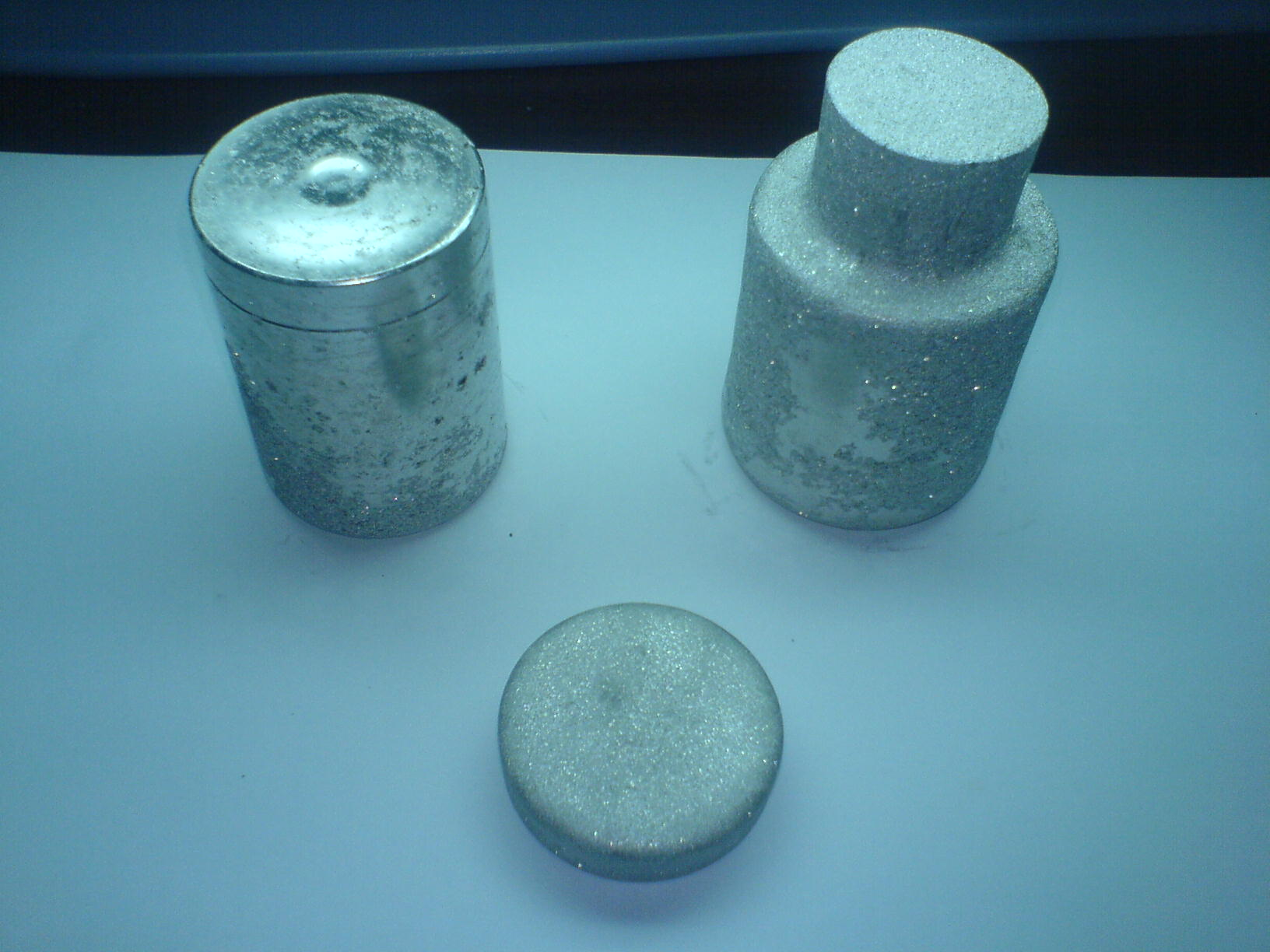 Сплав Вуда после затвердевания